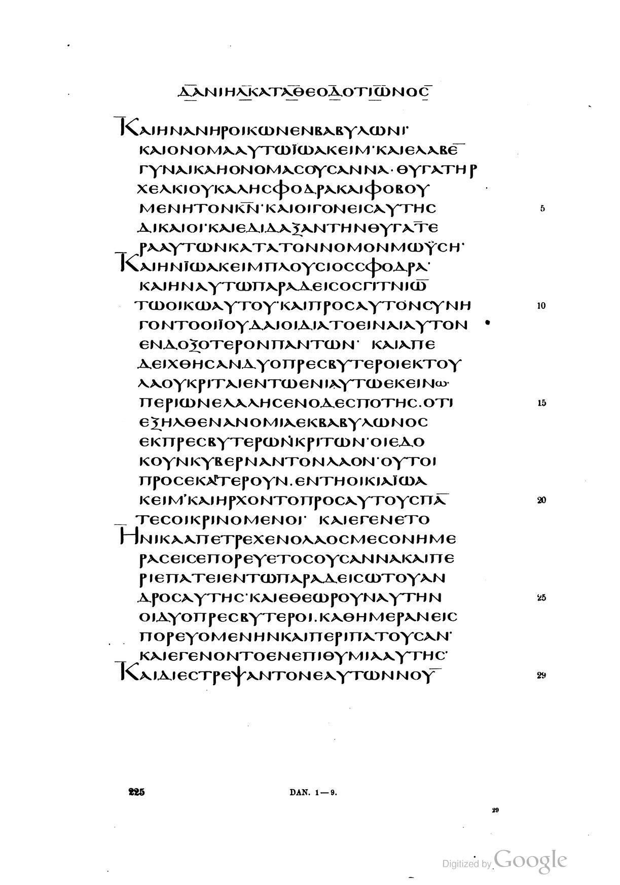 Tischendorf's facsimile edition of the codex from 1869 in "Monumenta sacra inedita. Nova Collectio"